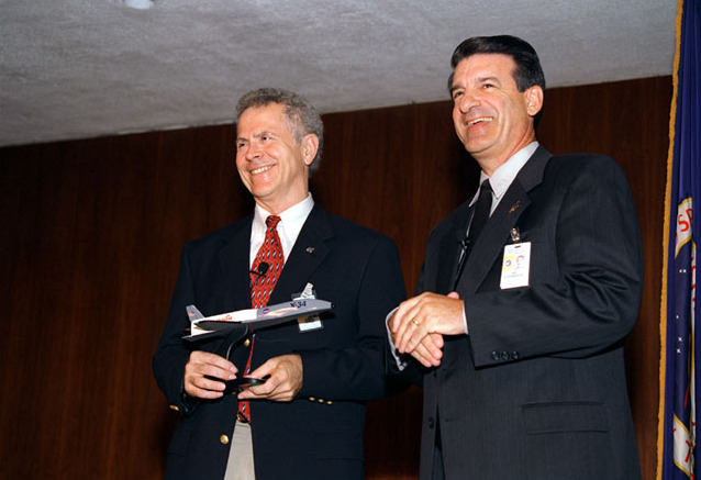 Author of Rocket Boys Homer Hickam, Jr. (left) and Marshall Space Flight Center (MSFC) Director Art Stephenson during a conference at Morris Auditorium on July 16, 1999. Homer Hickam worked at MSFC during the Apollo project years. As a young man, Mr. Hickam always dreamed of becoming a rocket scientist and following in the footsteps of Wernher von Braun. Hickam would see his dream realized years later, and has since written Rocket Boys, commemorating his life and the people at MSFC.